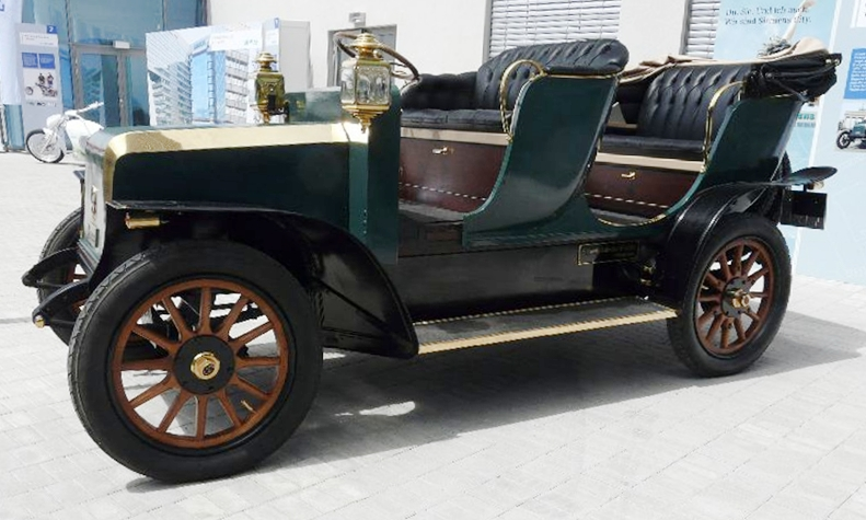 Replica of the Siemens Schuckert electric car of 1905 "Electric Victoria" Model B. Finished in April 2010. Picture taken at the opening day of the Siemens-City in Vienna, 2010-06-11.